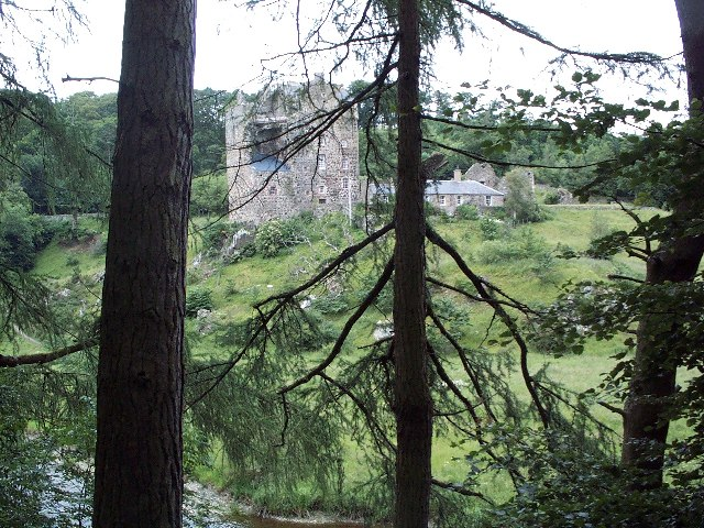 Neidpath Castle.